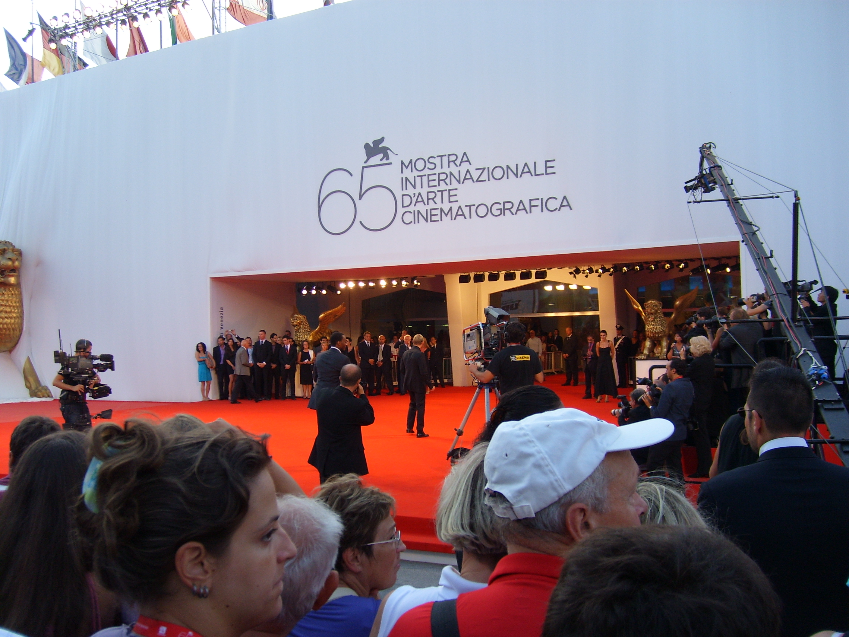 Arrival of movie stars at THE HURT LOCKER screening. Venice Film Festival, Sala Grande (Palazzo del Cinema), September 04, 2008